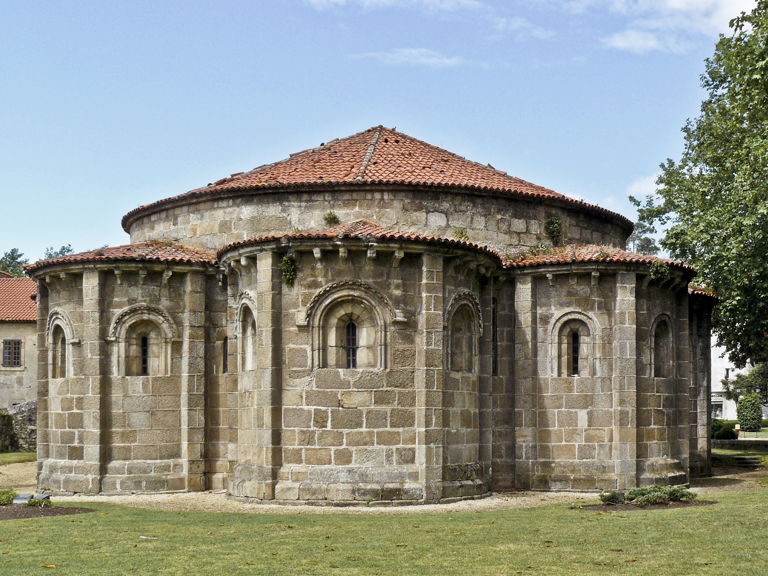 Apses of the parochial Church of Santa Maria of Cambre. Galicia.